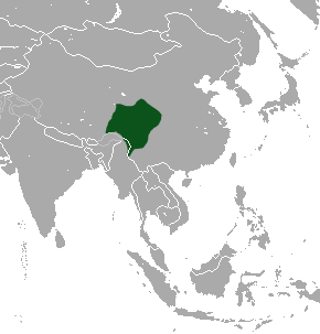 Chinese Water Shrew (Chimarrogale styani) range